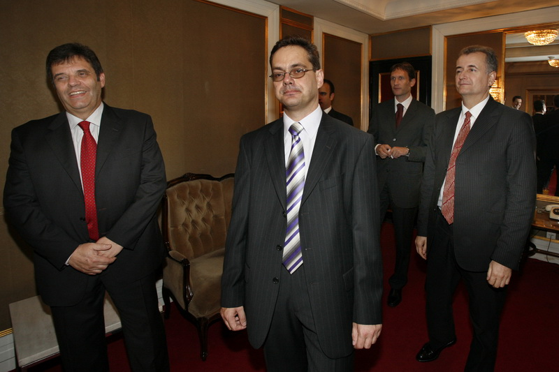 Serbian Prime Minister dr sci Vojislav Koštunica, Mathematical Gymnasium Belgrade then Principal prof. dr sci Vladimir Dragović, then Serbian Minister of Education prof. dr sci Slobodan Vuksanović, then Mayor of Belgrade and Mathematical Gymnasium Belgrade Alumnus Mr. Nenad Bogdanović.